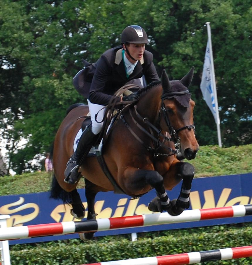 German rider Daniel Deußer with Cabreado S.E., "Championat von Hamburg", CSI 5* Hamburg 2011